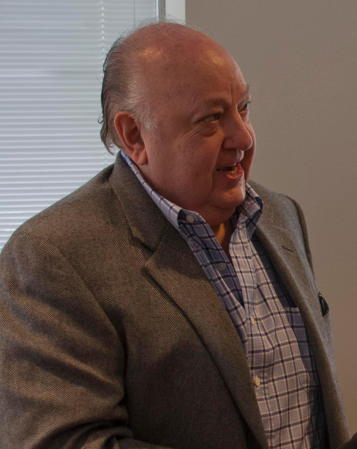 Roger Ailes, president of Fox News and chairman of the Fox Television Stations Group, at the Fox News Headquarters in Times Square, New York, June 14, 2013.